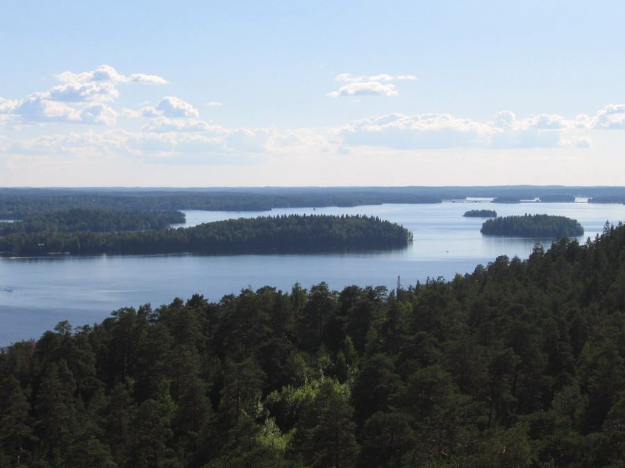 Lake Pyhäjärvi inTampere, Finland from Pyynikki tower